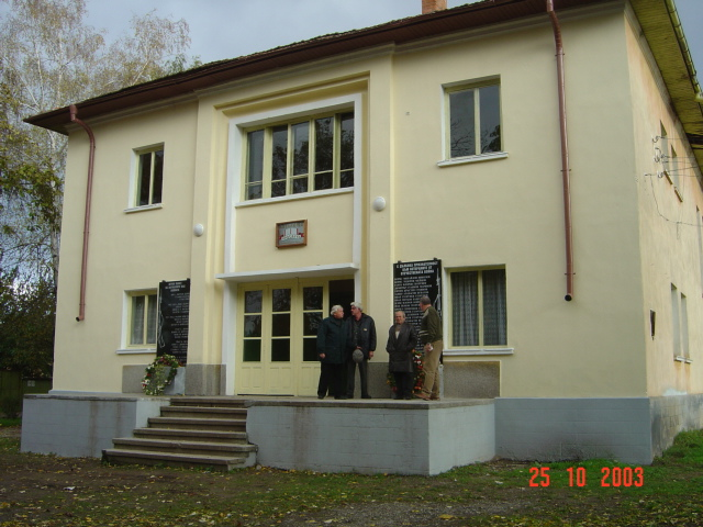 Cultural centre Baley 4италището Author: Anatoliy